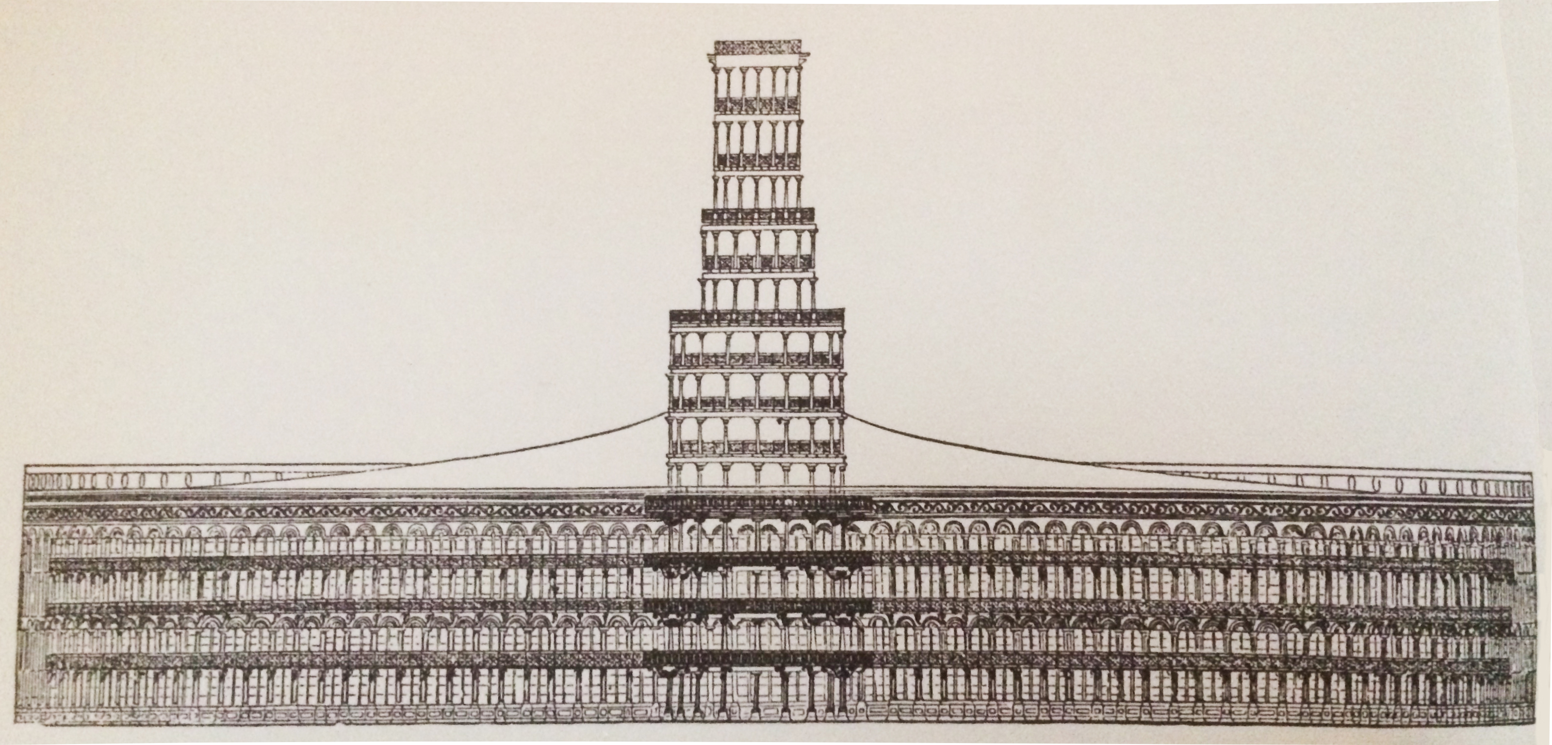 James Bogardus' project for a building for The Exhibition of the Industry of all Nations in New York (1853–1854)